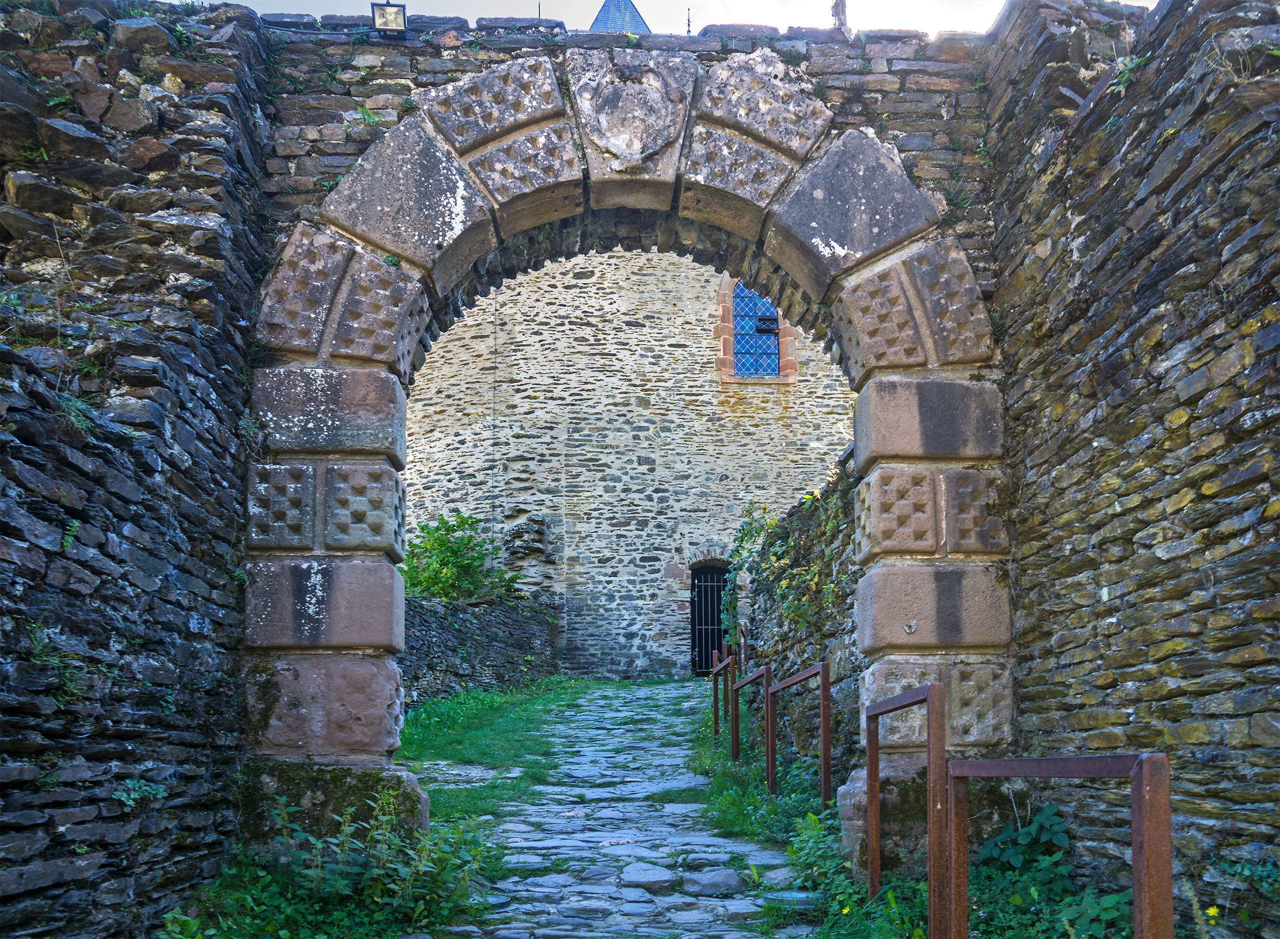 Portal of the Esch-sur-Sûre Castle. It originates from the house Flesch in Esch-Sauer.